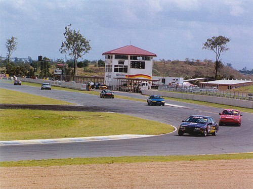 The view of Queensland Raceway's first corner and Dick Johnson Straight